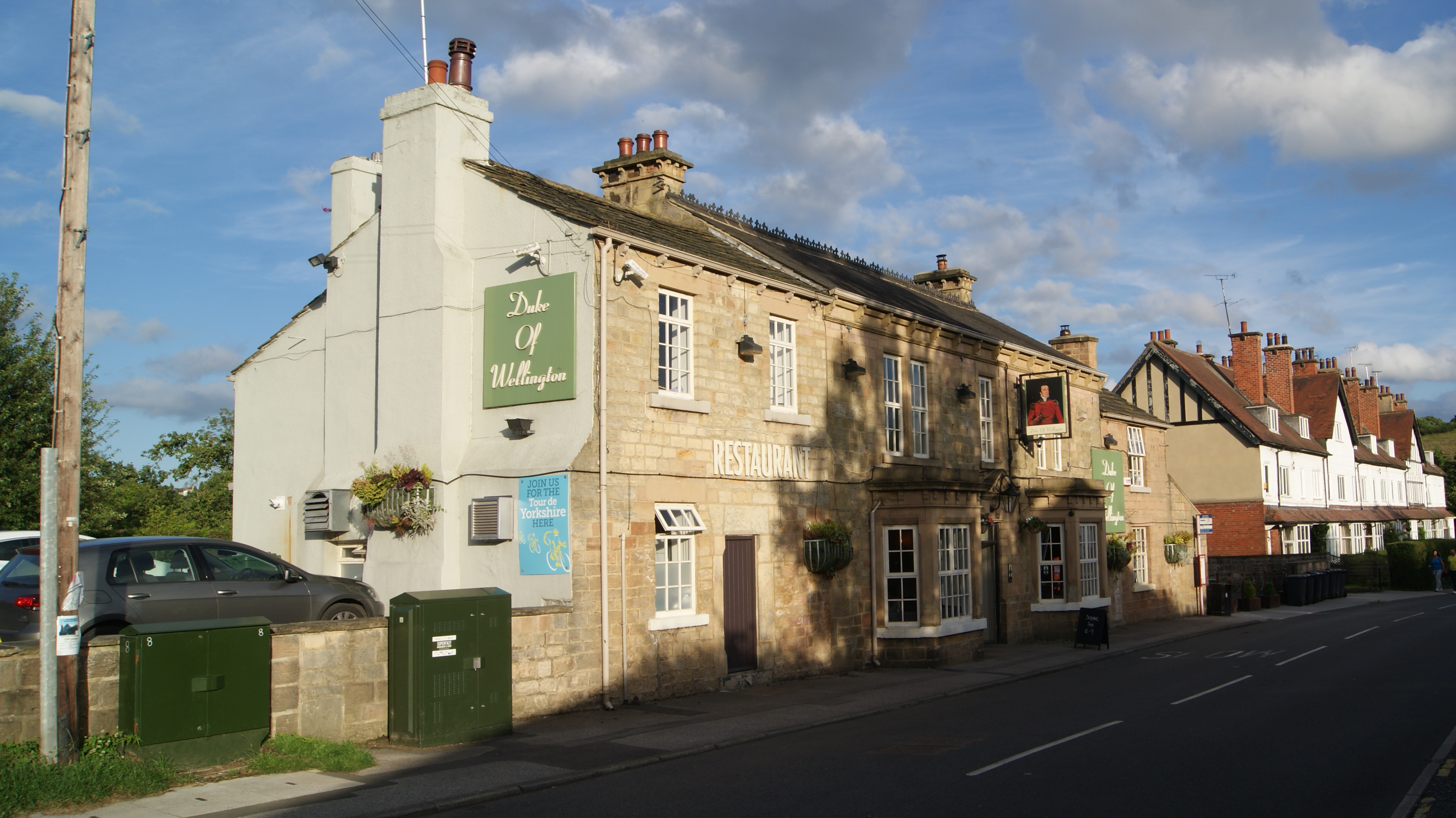 Duke of Wellington, Main Street, East Keswick, West Yorkshire. Taken on the evening of Friday the 8th of July 2016.